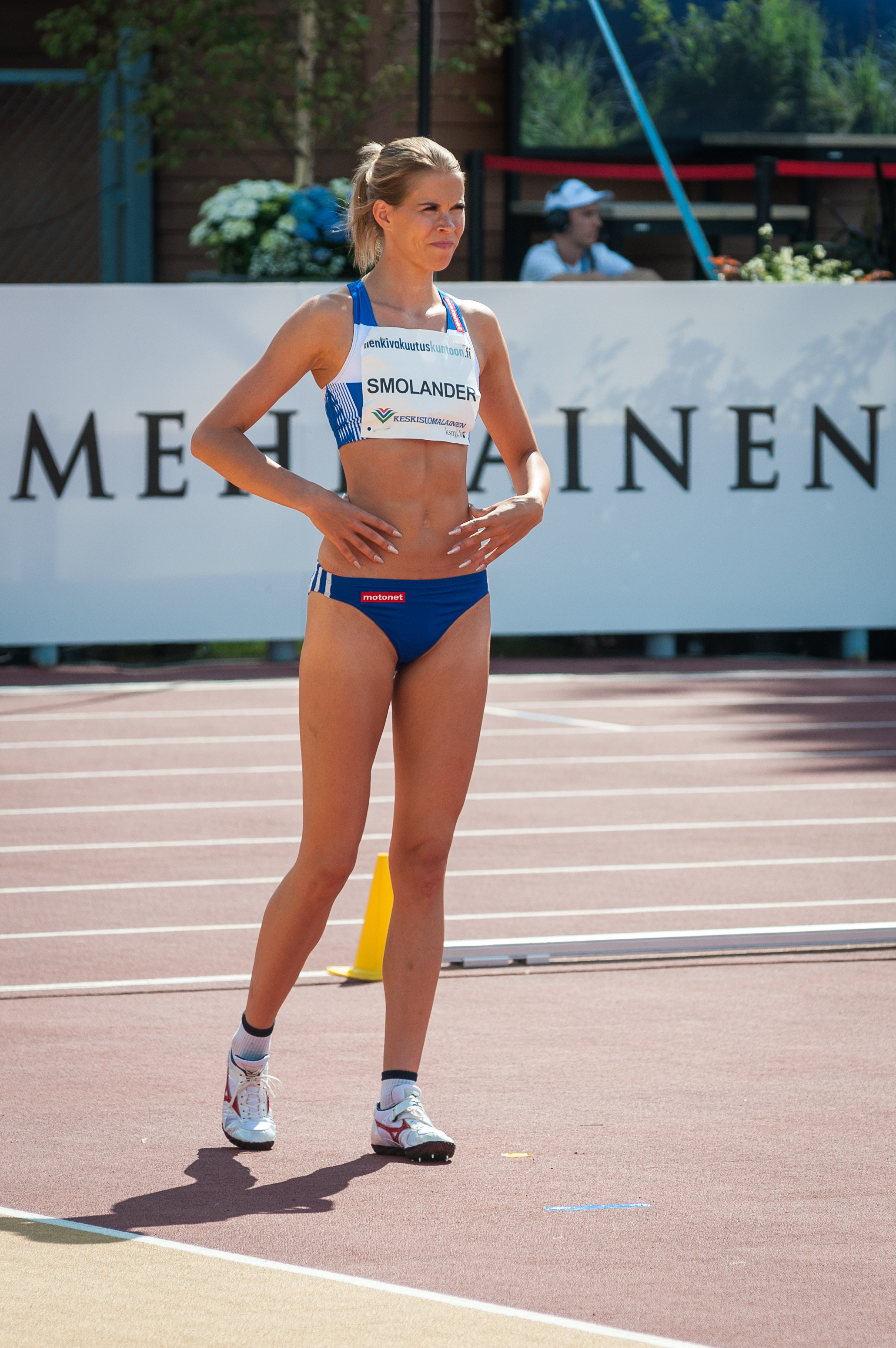 Women's high jump competition at the 2018 Kalevan Kisat, the Finnish championships in athletics, in Jyväskylä, Finland.